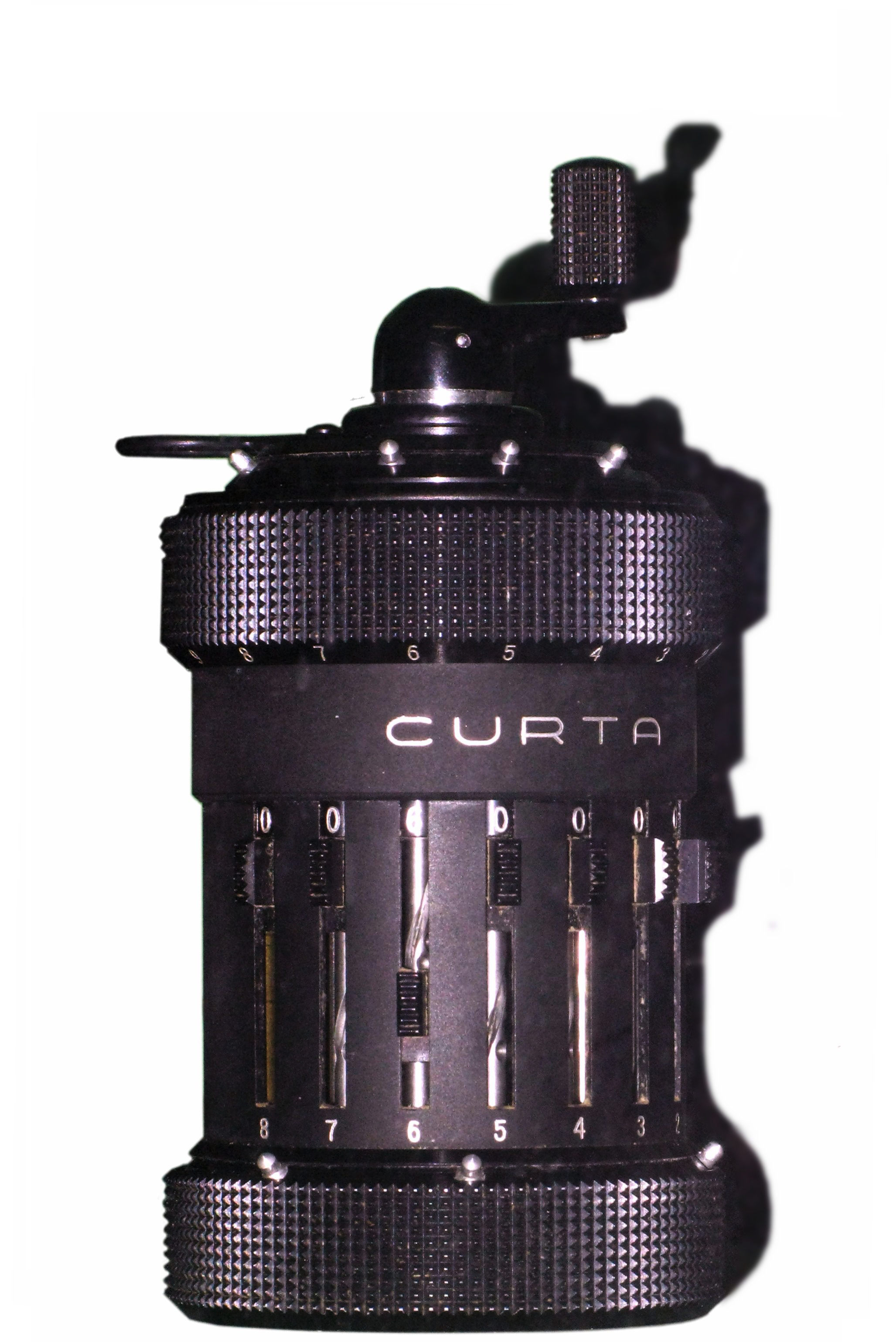 Curta mechanical computer